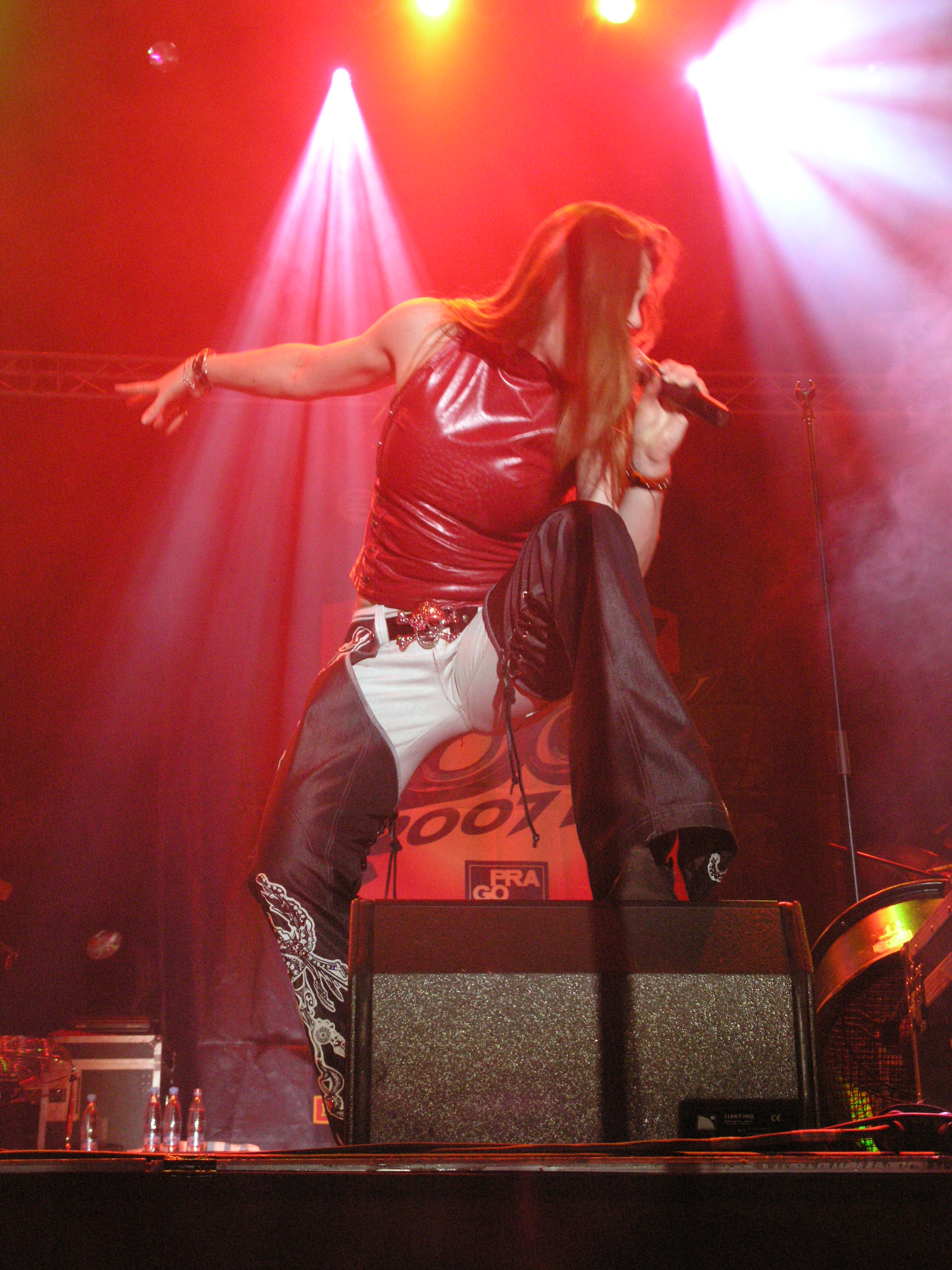 Floor Jansen from After Forever during Masters of Rock 2007 festival